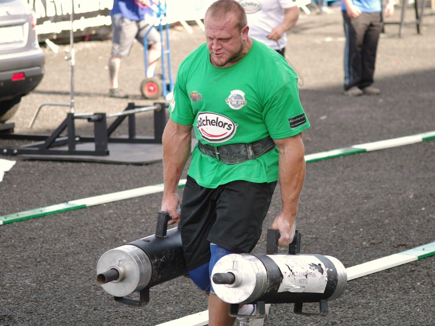 Travis Ortmayer - one of America's best strongmen at the Farmer's Walk.